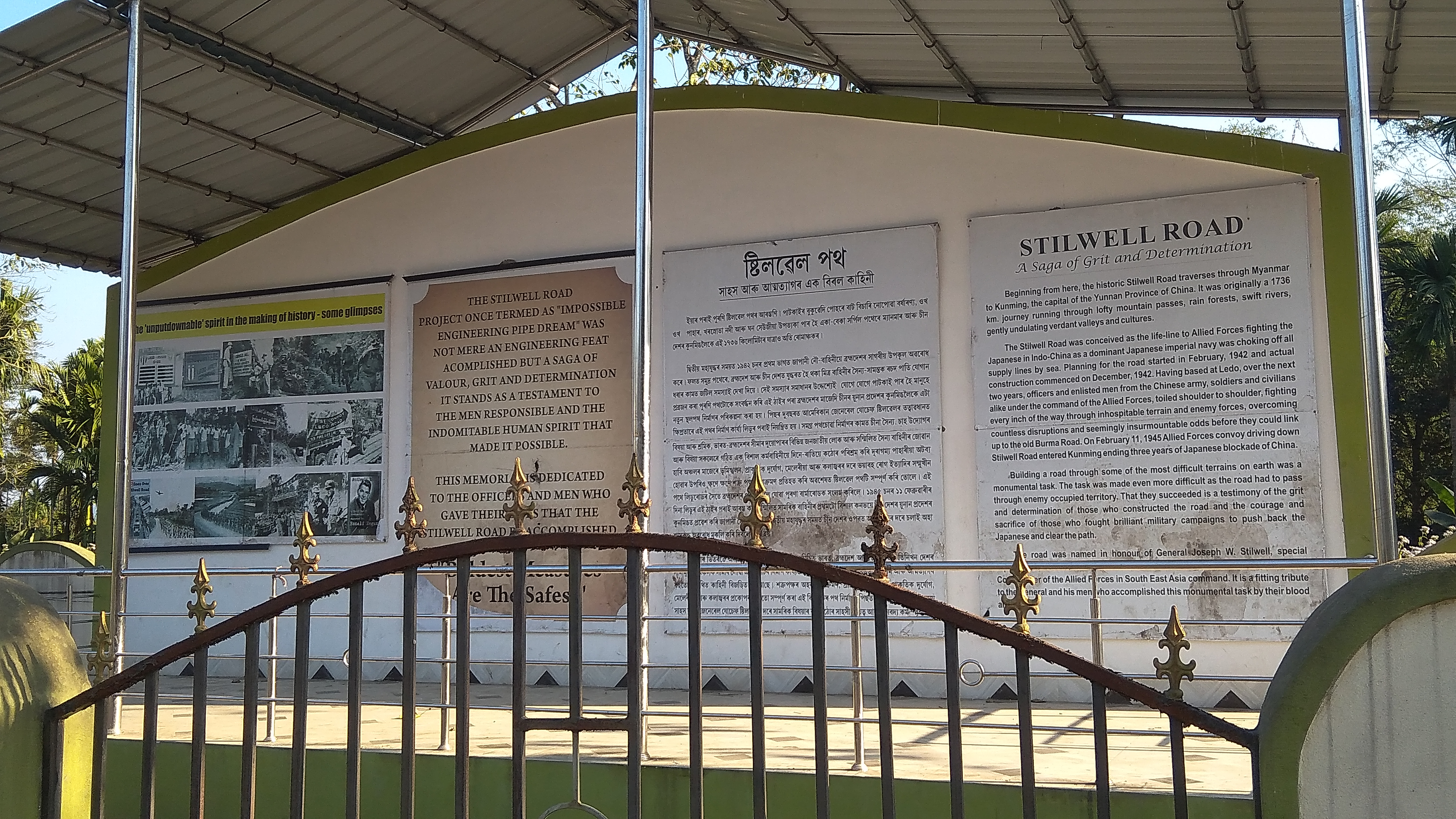 Recently erected Memorial at Ledo